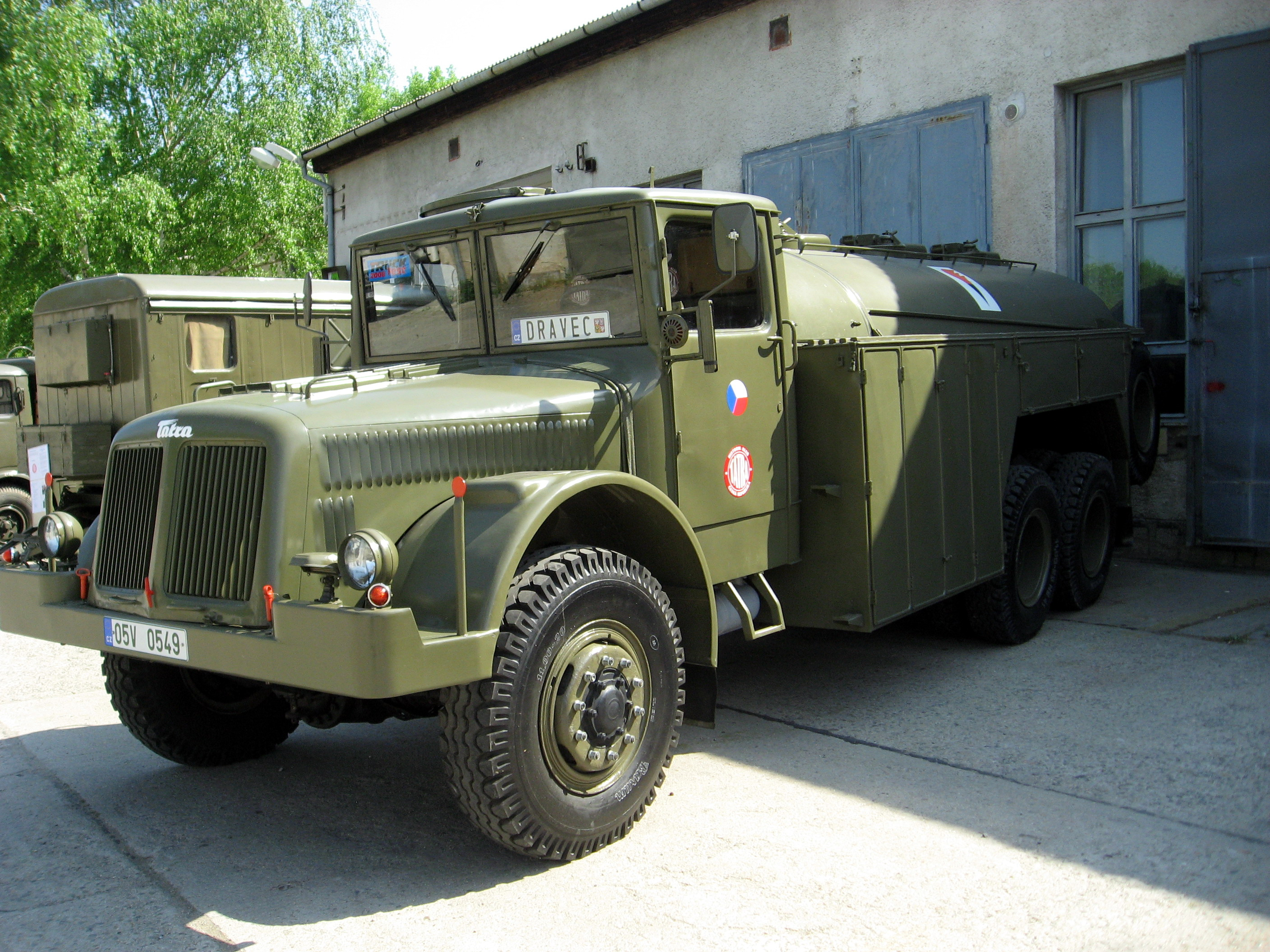 Tatra T111 Czechoslovak army fuel tanker